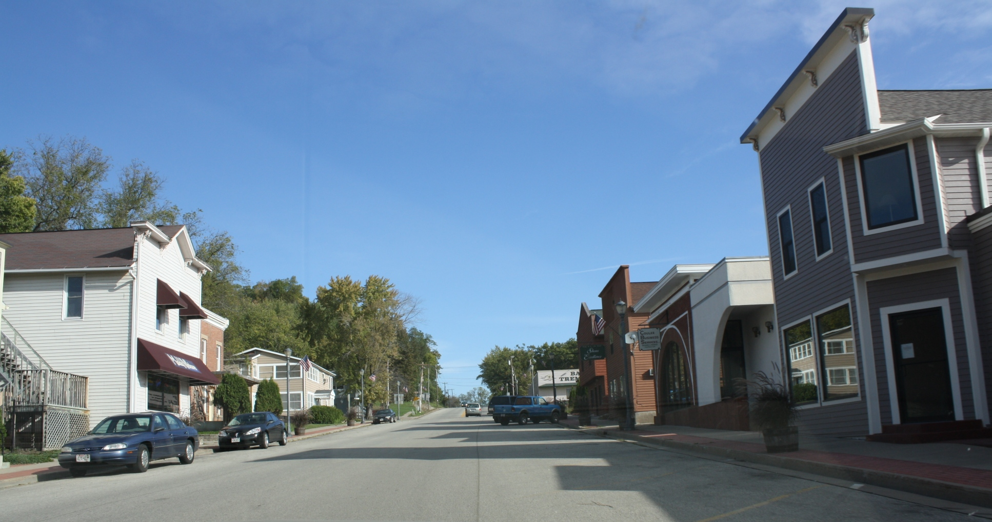 Looking north at downtown Trempealeau, Wisconsin. It is listed on the National Register of Historic Places as the Main Street Historic District (Trempealeau, Wisconsin).